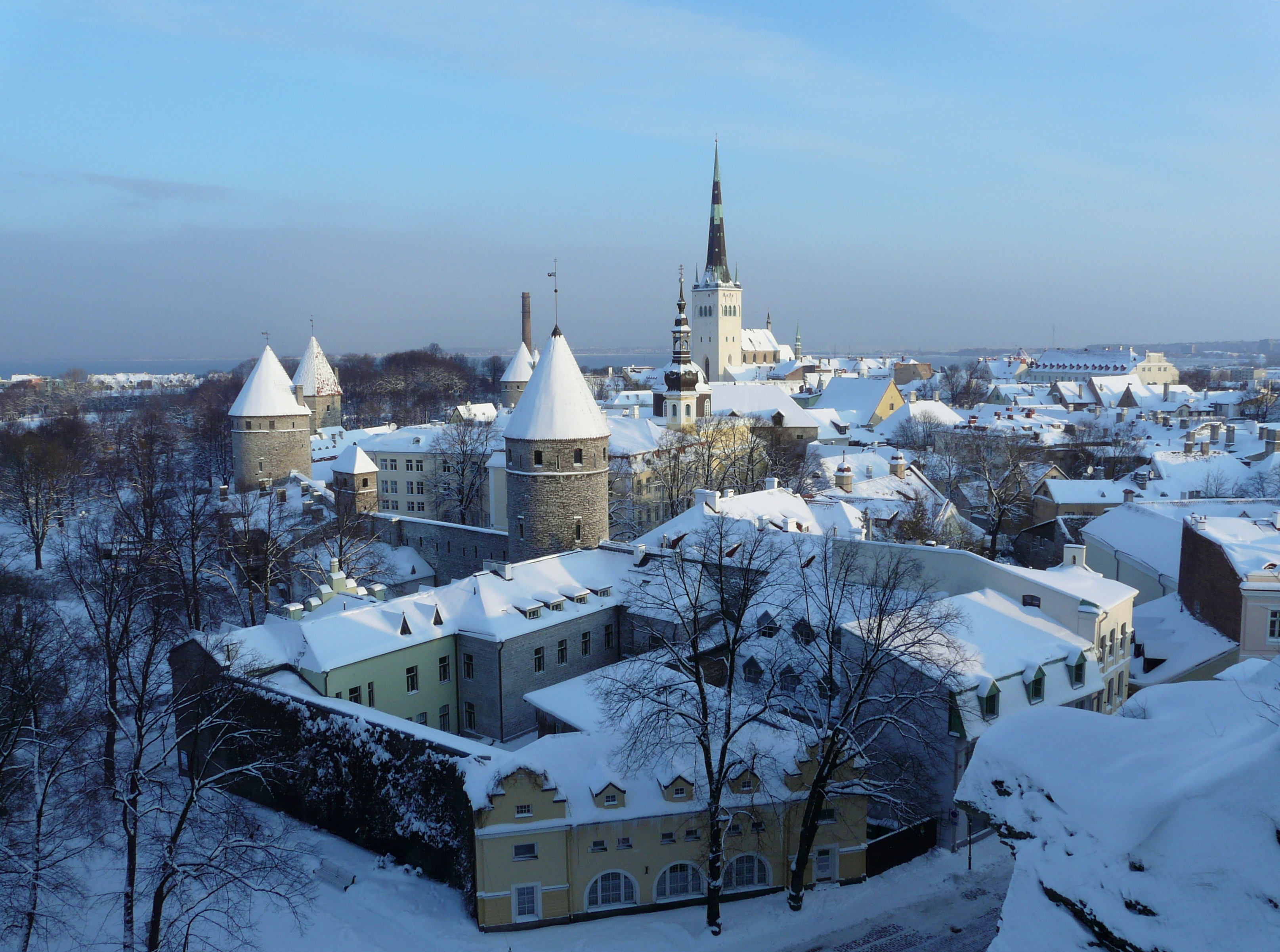 City view of Tallinn